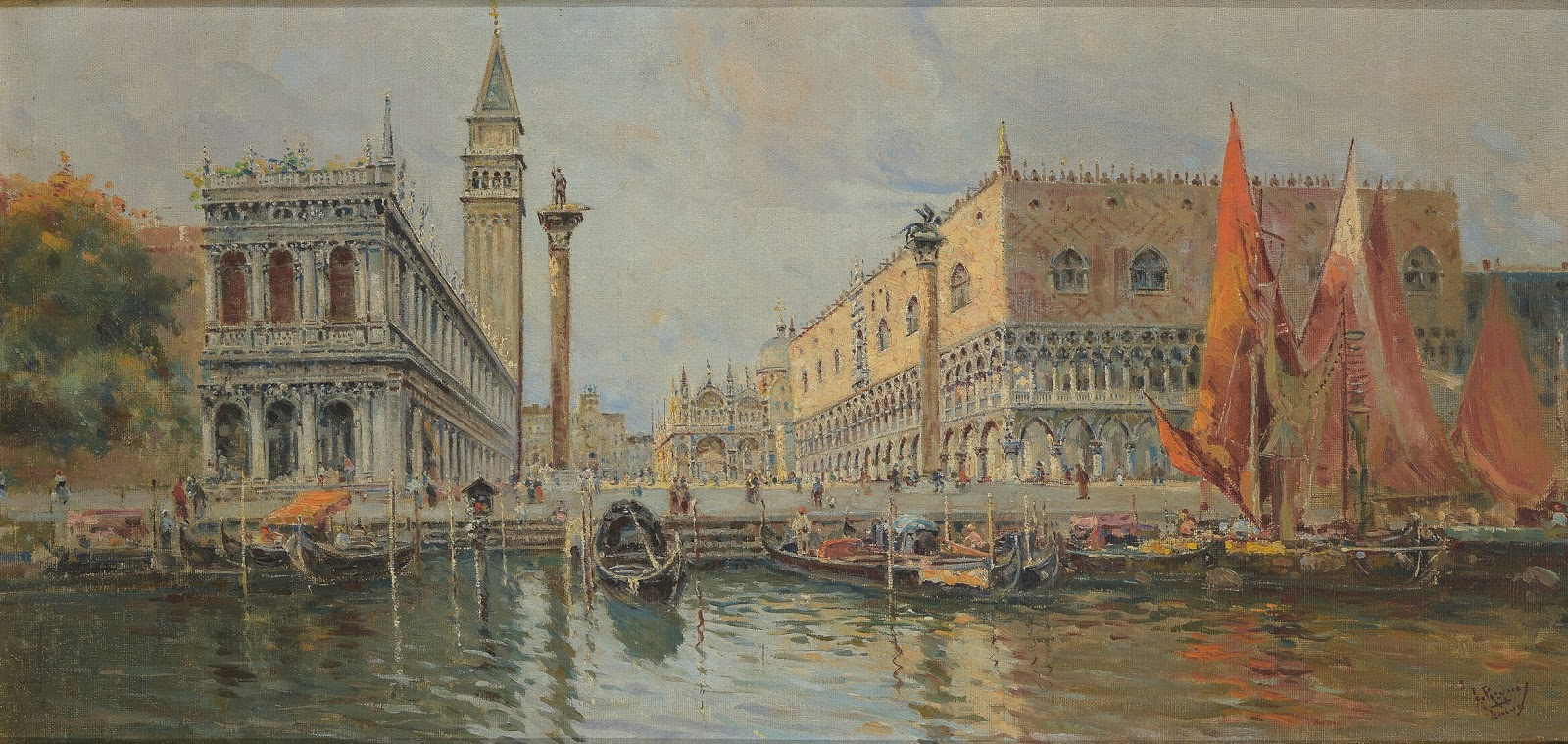 Grand Canal and Piazza San Marco (c. 1890) by Antonio Reyna Manescau . Private collection.